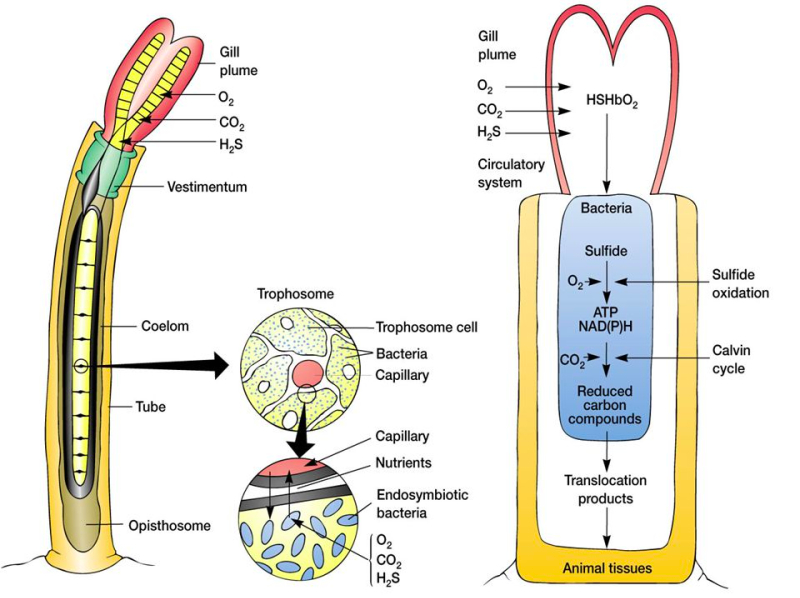 The trophosome of R. pachyptila is composed of multiple lobules that contain bacteriocytes, that is, host cells filled with bacteria